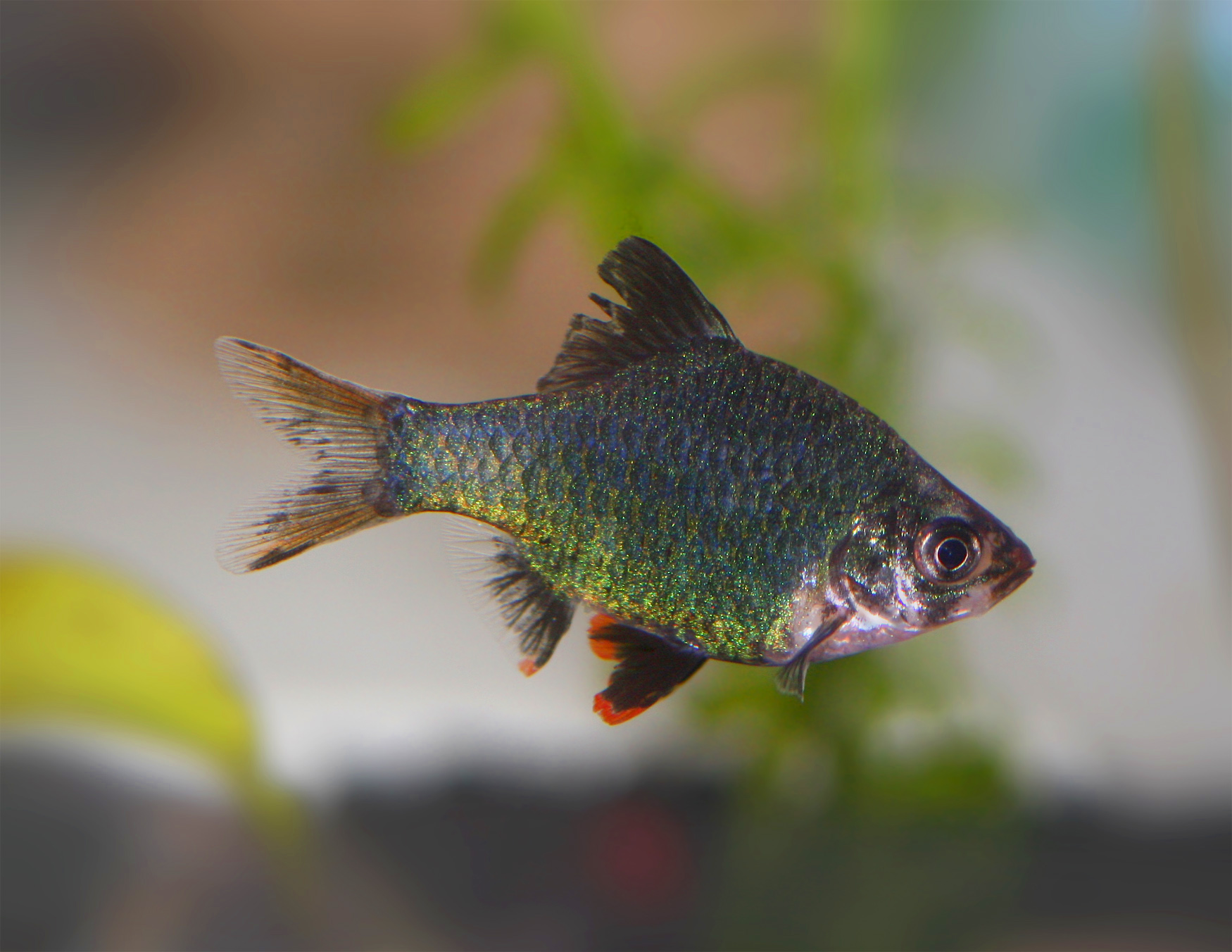 photo by me user debivort, 3.07